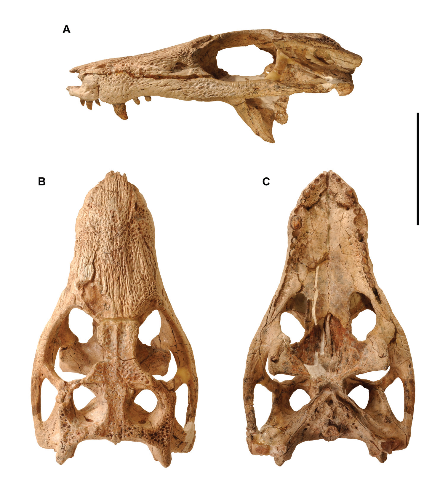 Skull of the crocodyliform Araripesuchus wegeneri. Cranium (MNN GAD19). A Lateral view (reversed). B Dorsal view. C Ventral view. Scale bar equals 5 cm.